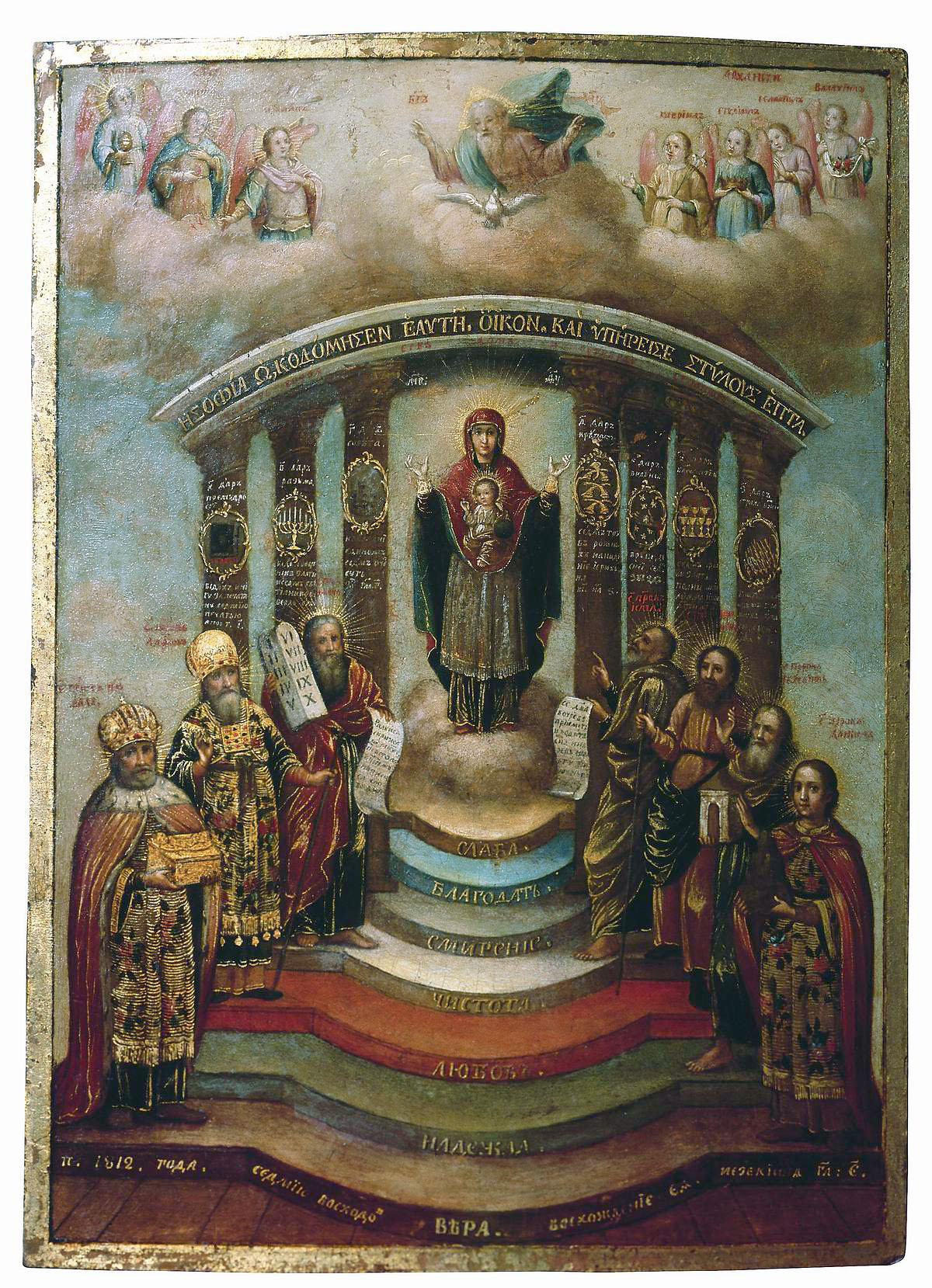 Icon Sophia, the Holy Wisdom, and syzygy Sophia with Jesus Christ